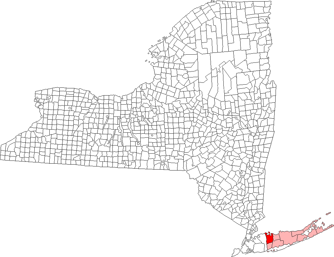 Location of Huntington in Suffolk County, New York.